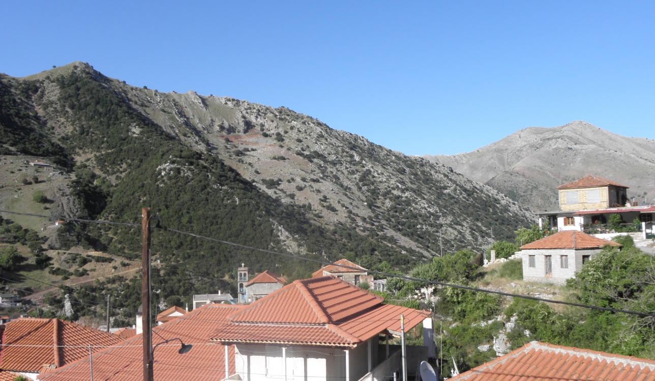 Astras village, Ileia, Greece.